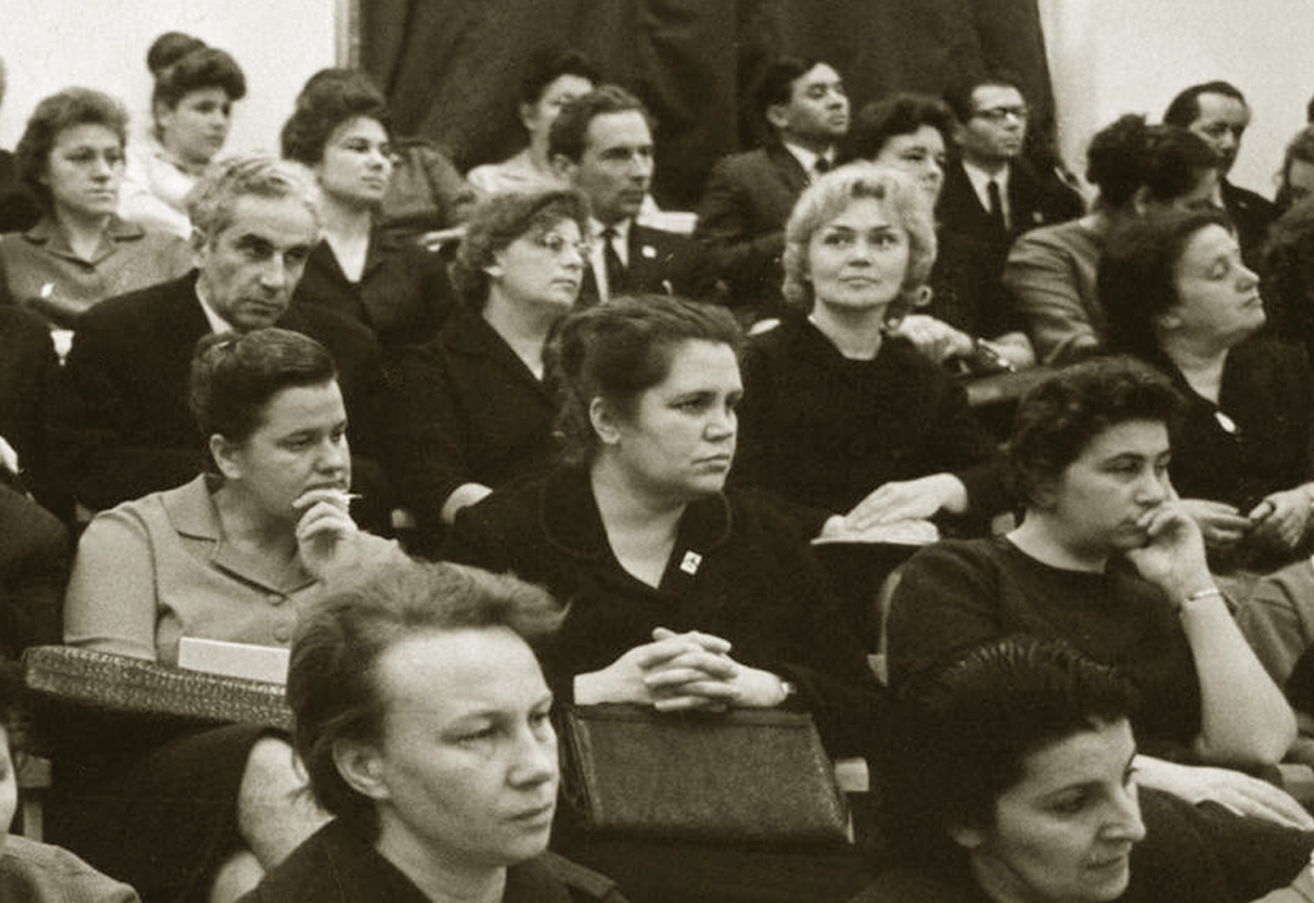 All-Russian Conference of Pediatric Surgeons. Moscow, December 1965